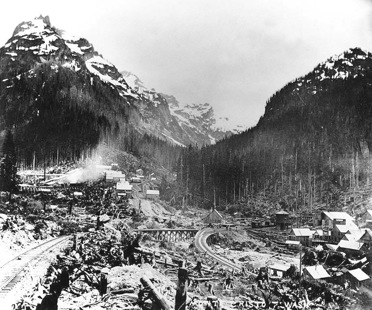 Monte Cristo, Washington, 1895 Notes: View from the concentrator switchback railroad line . On verso of image: Monte Cristo, 1895.